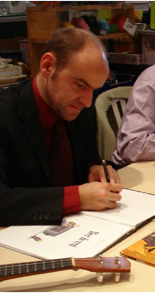 Lewis Trondheim, French cartoonist, drawing Own work, 2005, Author: hei_ber GNU-FDL